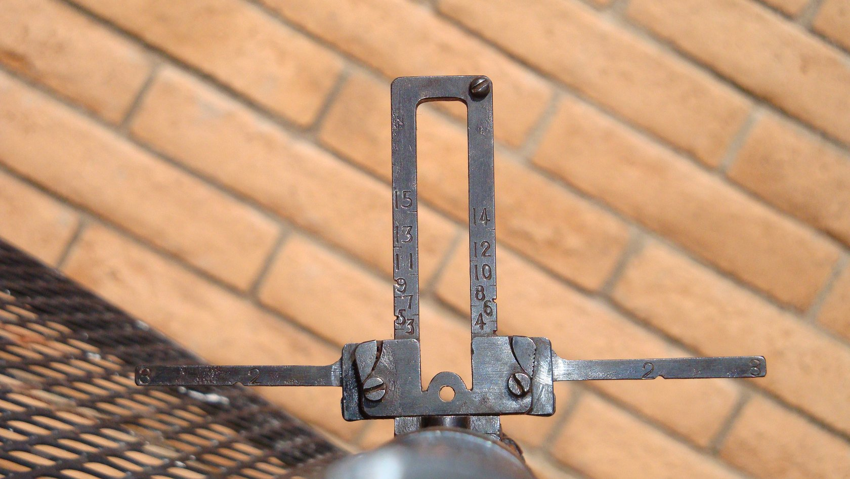 The sight tower of an early Arisaka Type 99 rifle (antiaircraft sights intact, deployed).